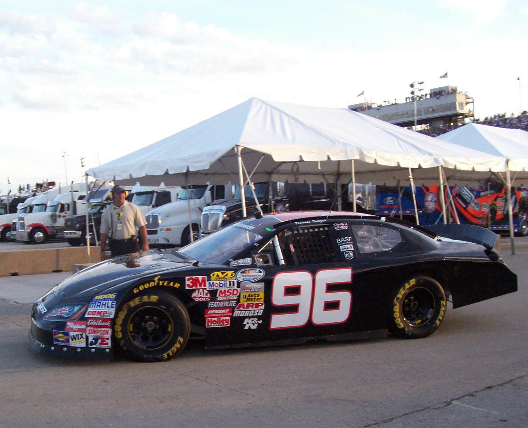 NASCAR driver Dennis Setzers Dodge at the 2009 Northern 250 Nationwide Series race at the Milwaukee Mile. He drove a few laps before retiring into the pits (pictured).